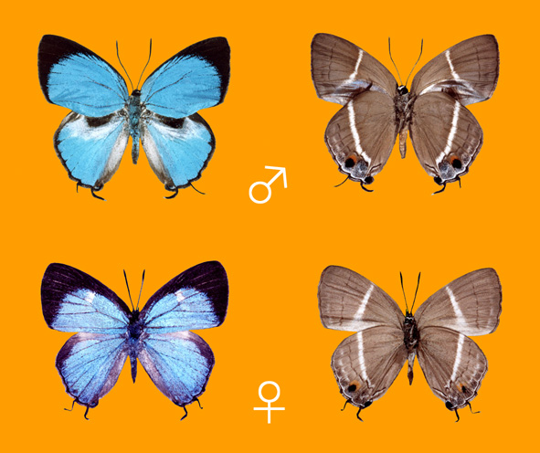 Dacalana mio, male and female